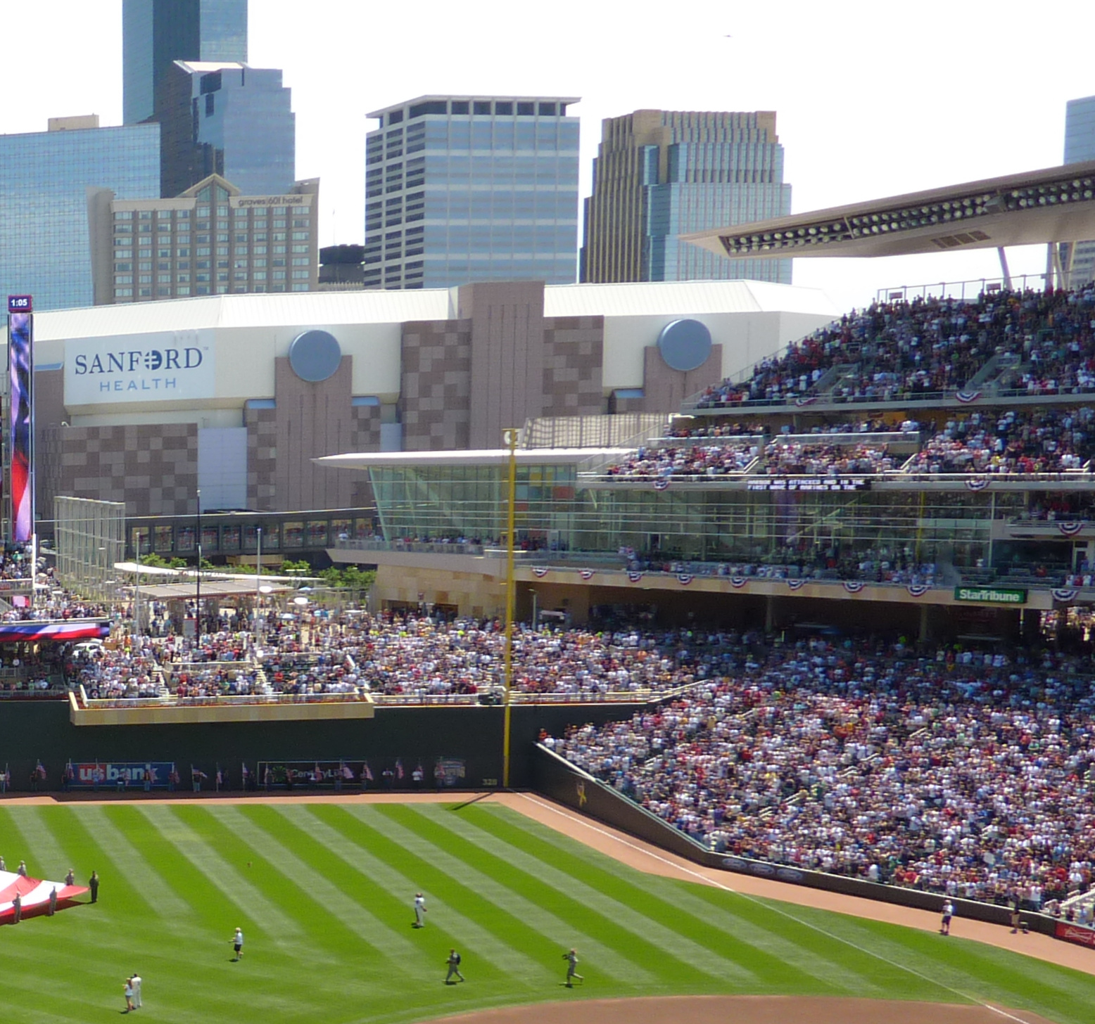 Sanford Health sign placed on the exterior of Target Center, designed to be visible from inside Target Field (an example of ambush marketing)